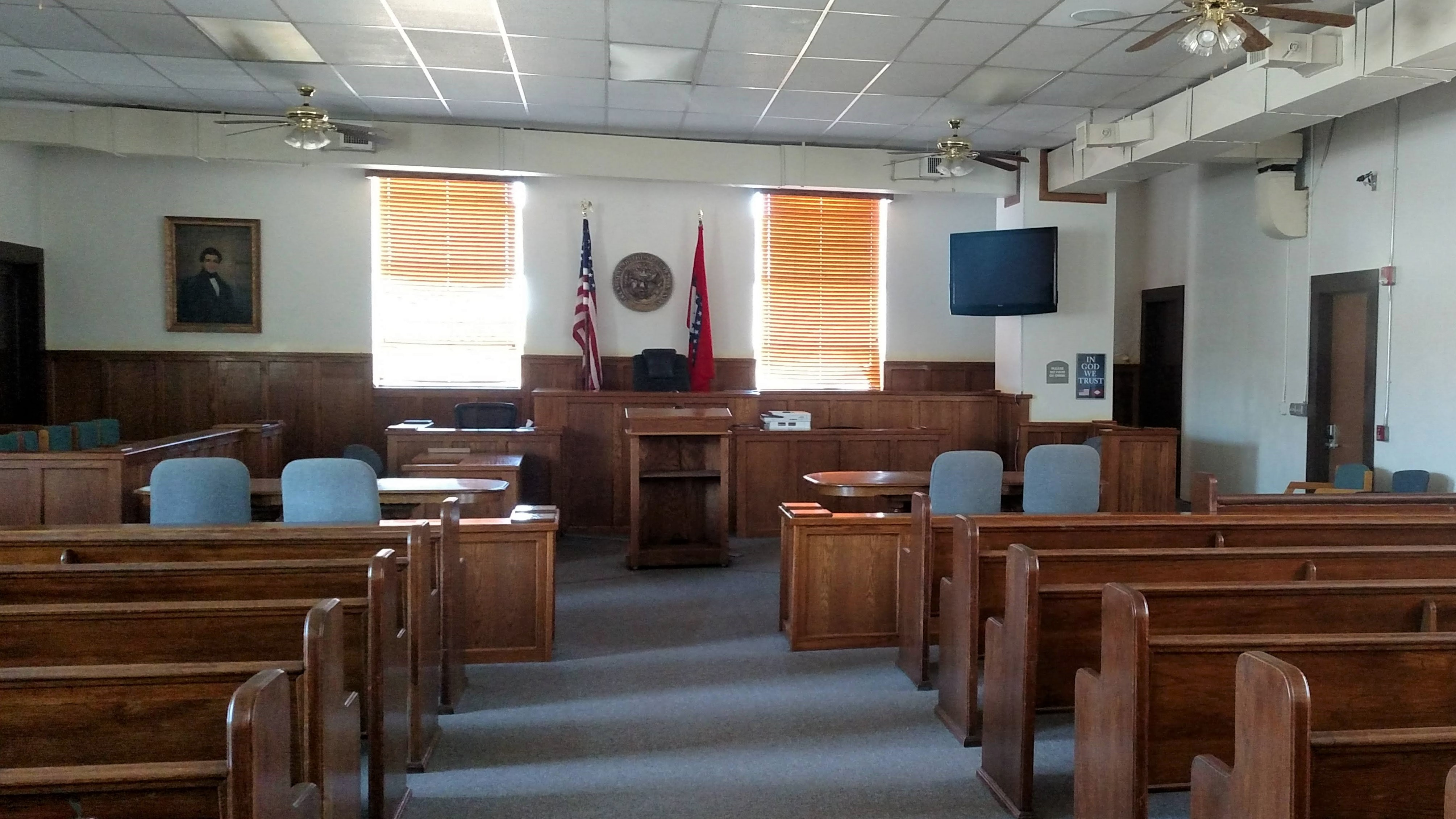 Courtroom interior at the Newton County Courthouse in Jasper, Arkansas